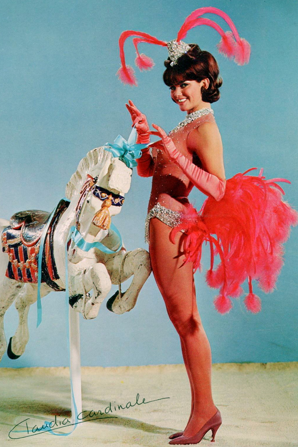 Postcard photo of Claudia Cardinale promoting Blindfold (film). She's seen in one of her costumes from the film.